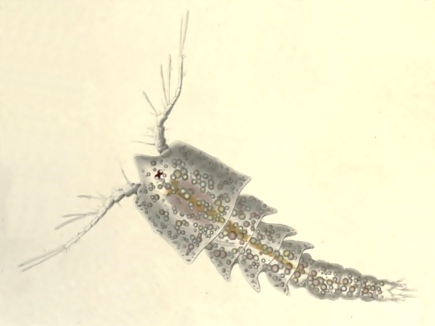 BHL - Clytemnestra scutellata Cut-out from original (N64 w1150 (17932636091).jpg) shown below